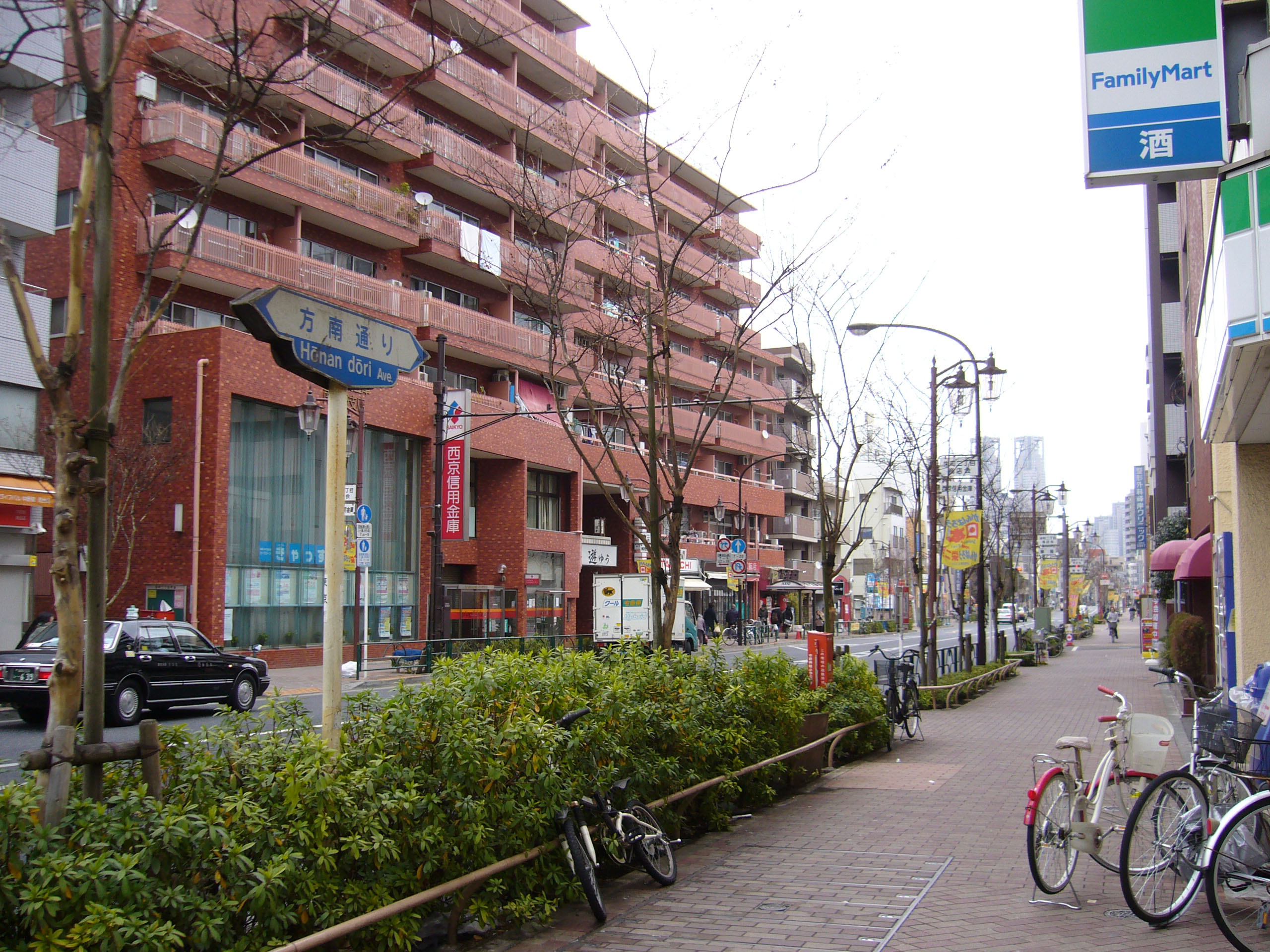 Honan street which leads to Shinjuku (Tokyo, Japan) viewed from Minamidai intersection